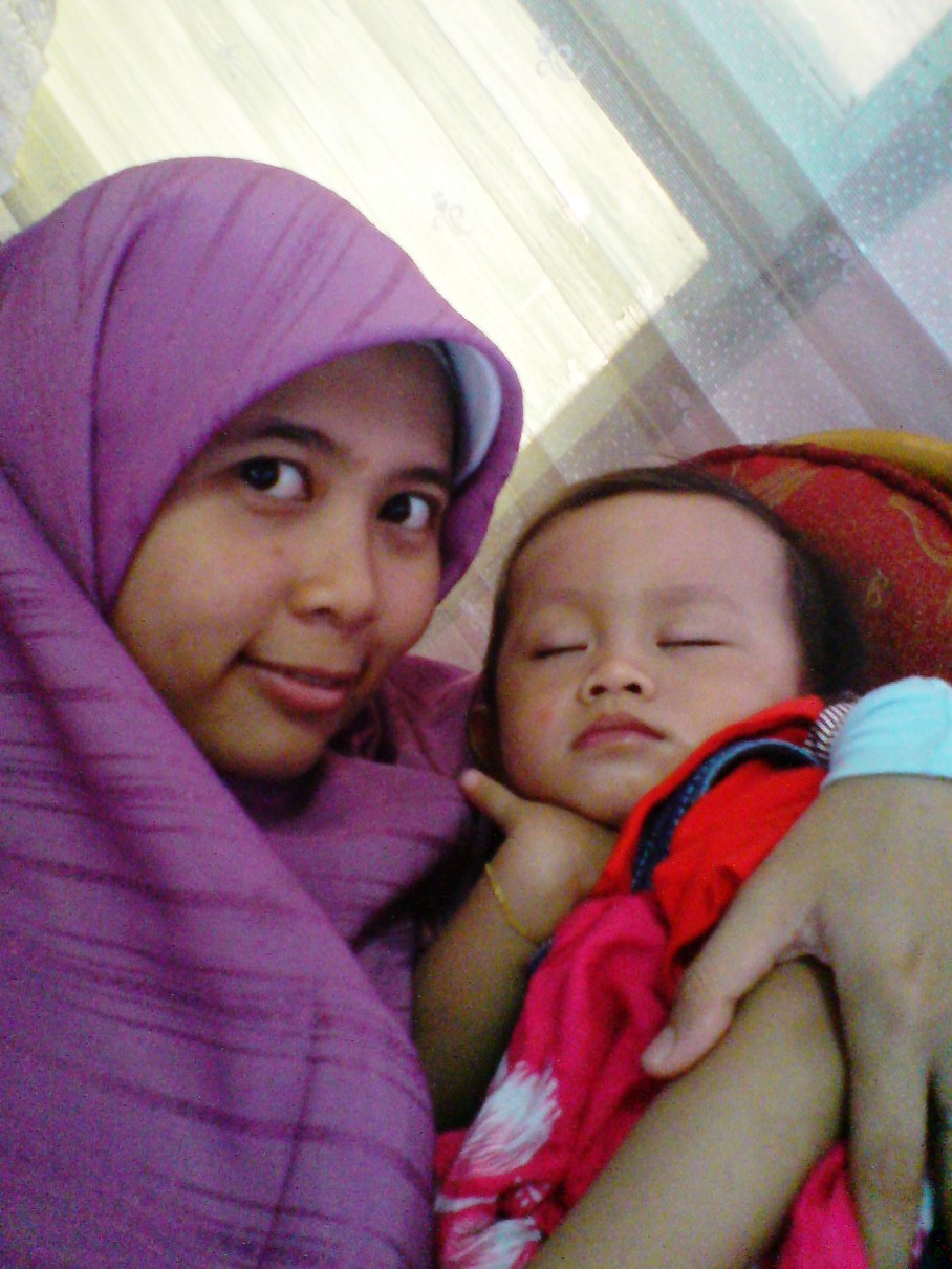 A woman with an eleven month old baby (her nephew), in Belitung, IndonesiaBahasa Indonesia: Seorang wanita menggendong kepnakannya yang masih bayi berusia 11 bulan, di Belitung, Indonesia